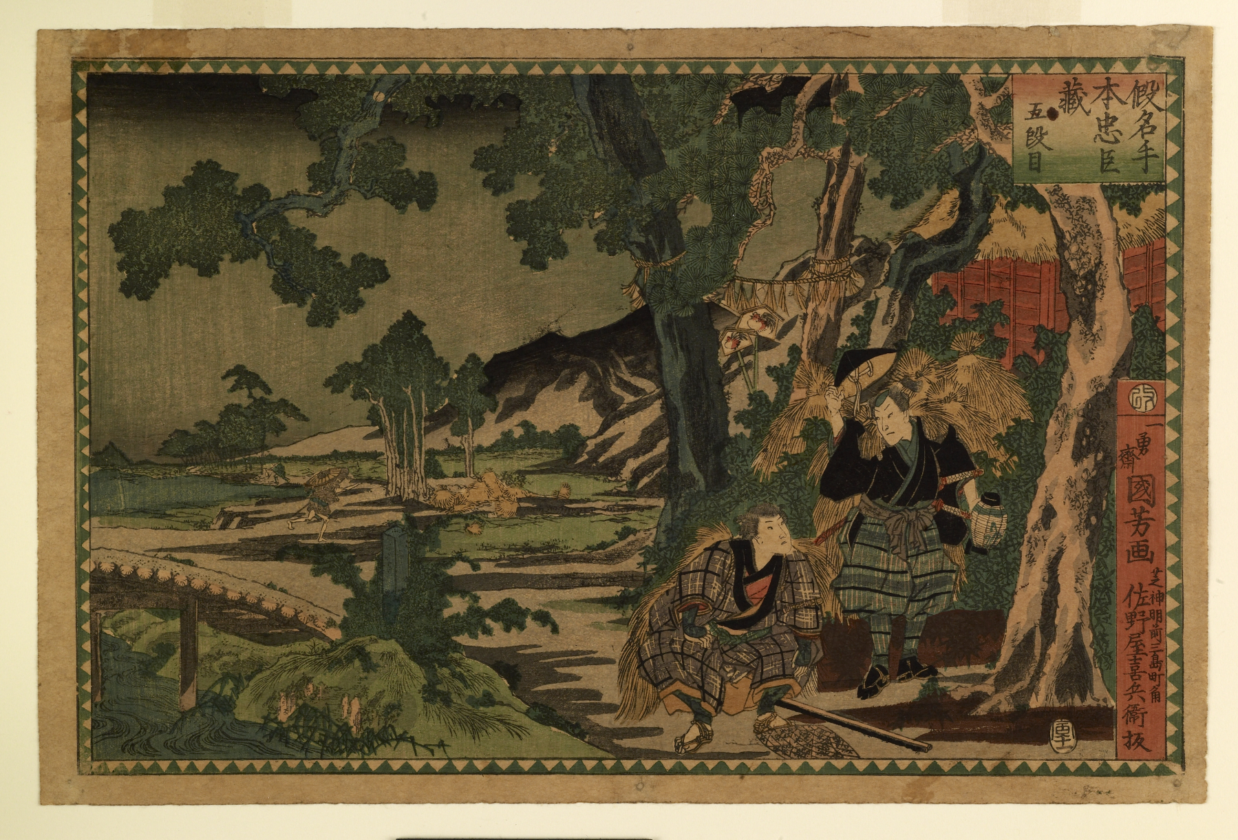 Since Kampei was with his beloved Okaru at the time of his master Hangan's suicide, he feels too disgraced to join the other warriors in their pursuit of vengeance. He has therefore gone off by himself into the countryside. While Kampei is seated with his rifle under a pine during a rainstorm, one of the warriors, Yagoro, happens to come by carrying a lantern. "If I could find some way of meeting Yuranosuke [the leader of the warriors] and persuading him to let me add my seal to those of the others in the league," says Kampei, "my honor would be restored through this and all lives to come."